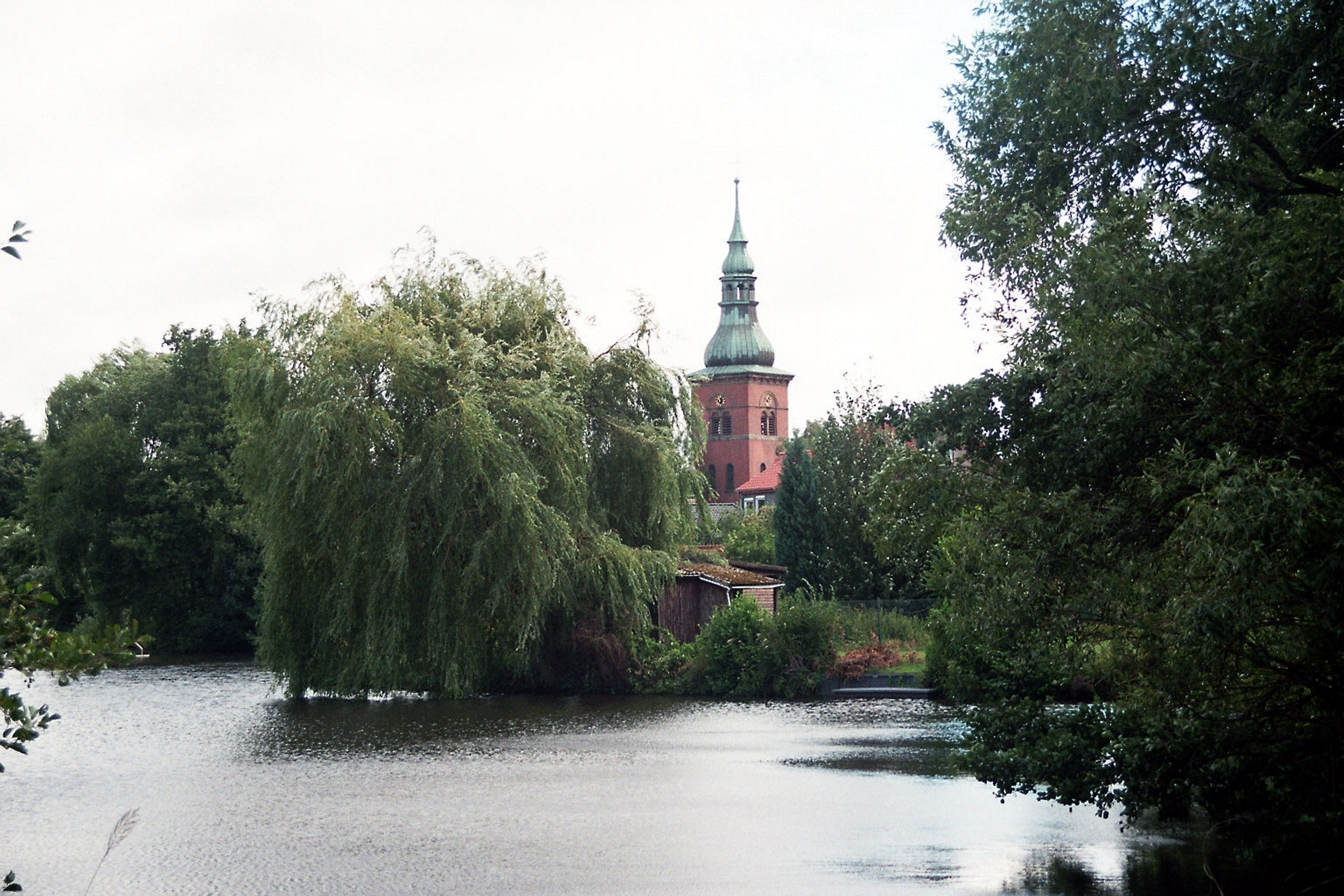 Bad Bodenteich, the Lake "Parksee", view to the St. Petri Church